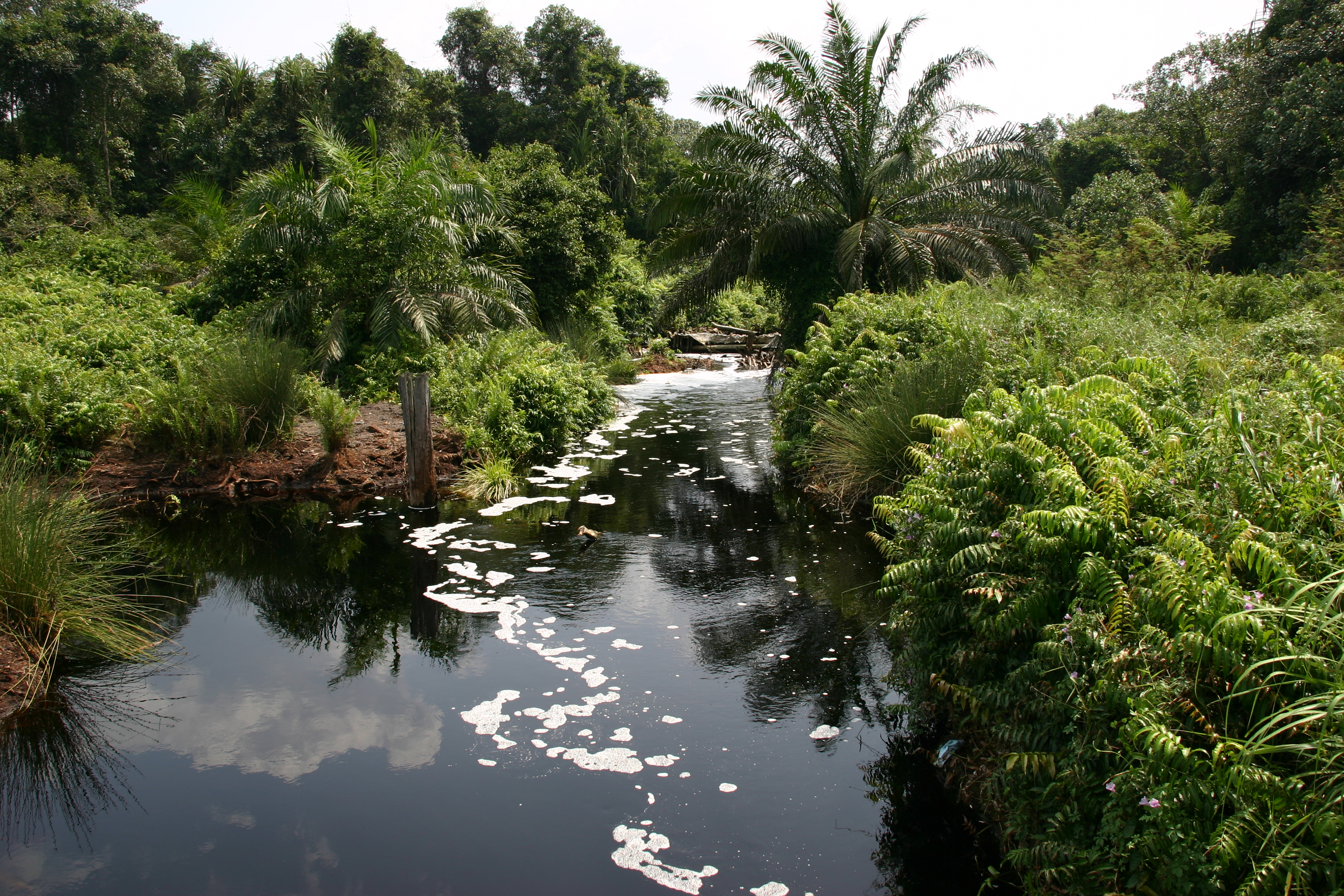 Blackwater stream in North-Selangor (Western Malaysia) peat swamp forest; habitat for many blackwater species e.g. Parosphromenus harveyi